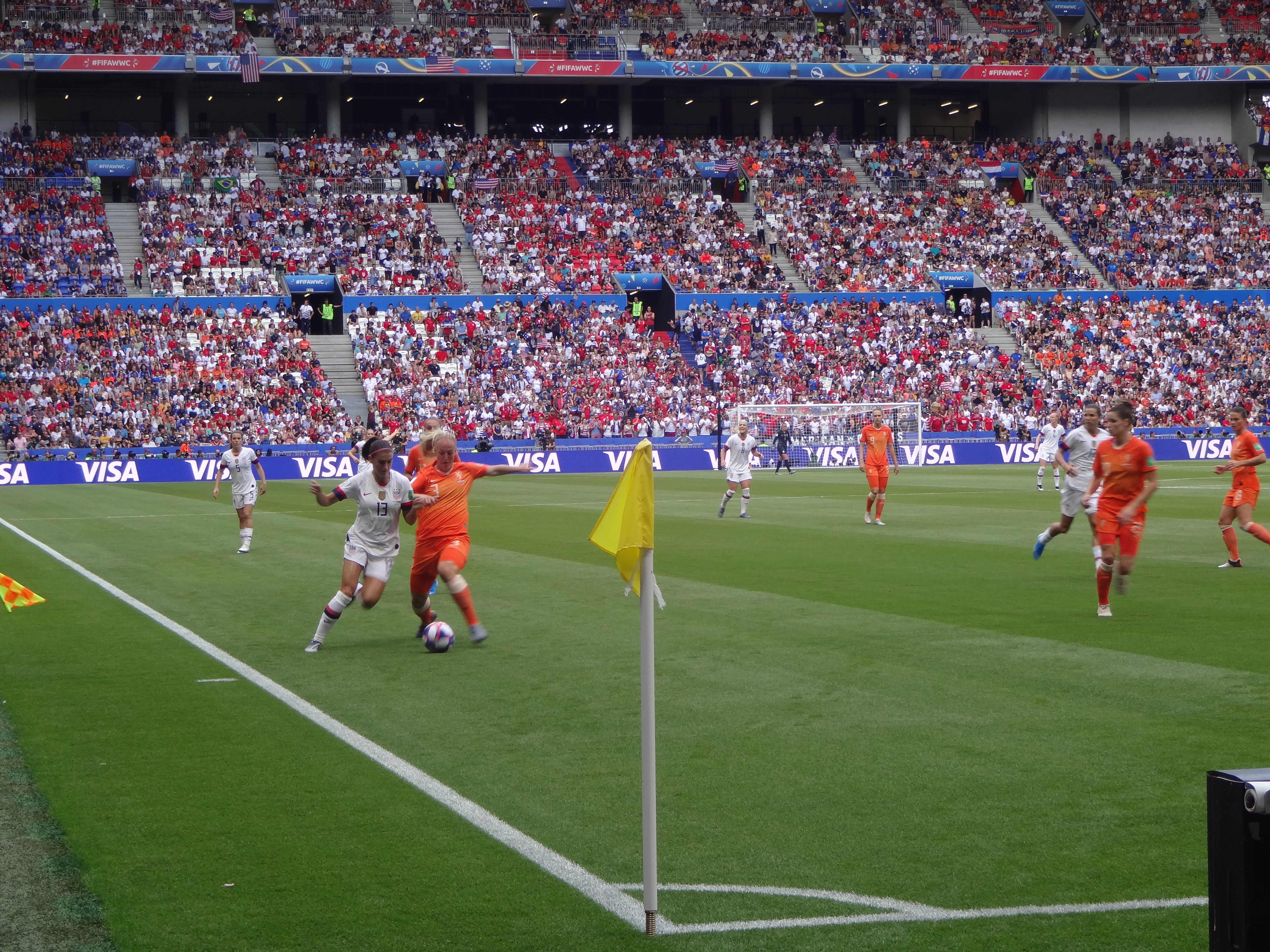 Alex Morgan and Stefanie van der Gragt fight for the ball